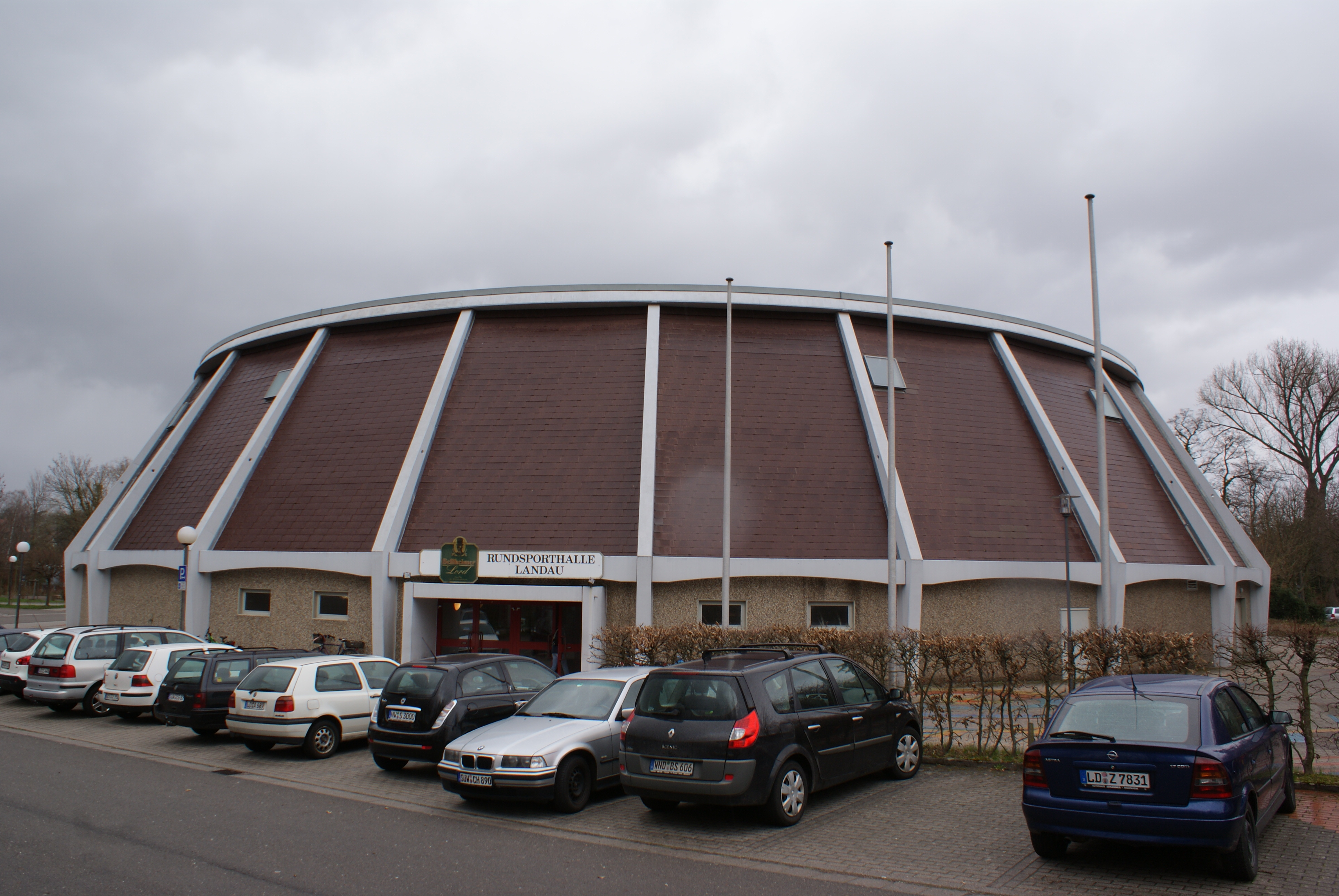 Front of the "Rundsporthalle" in Landau Pfalz